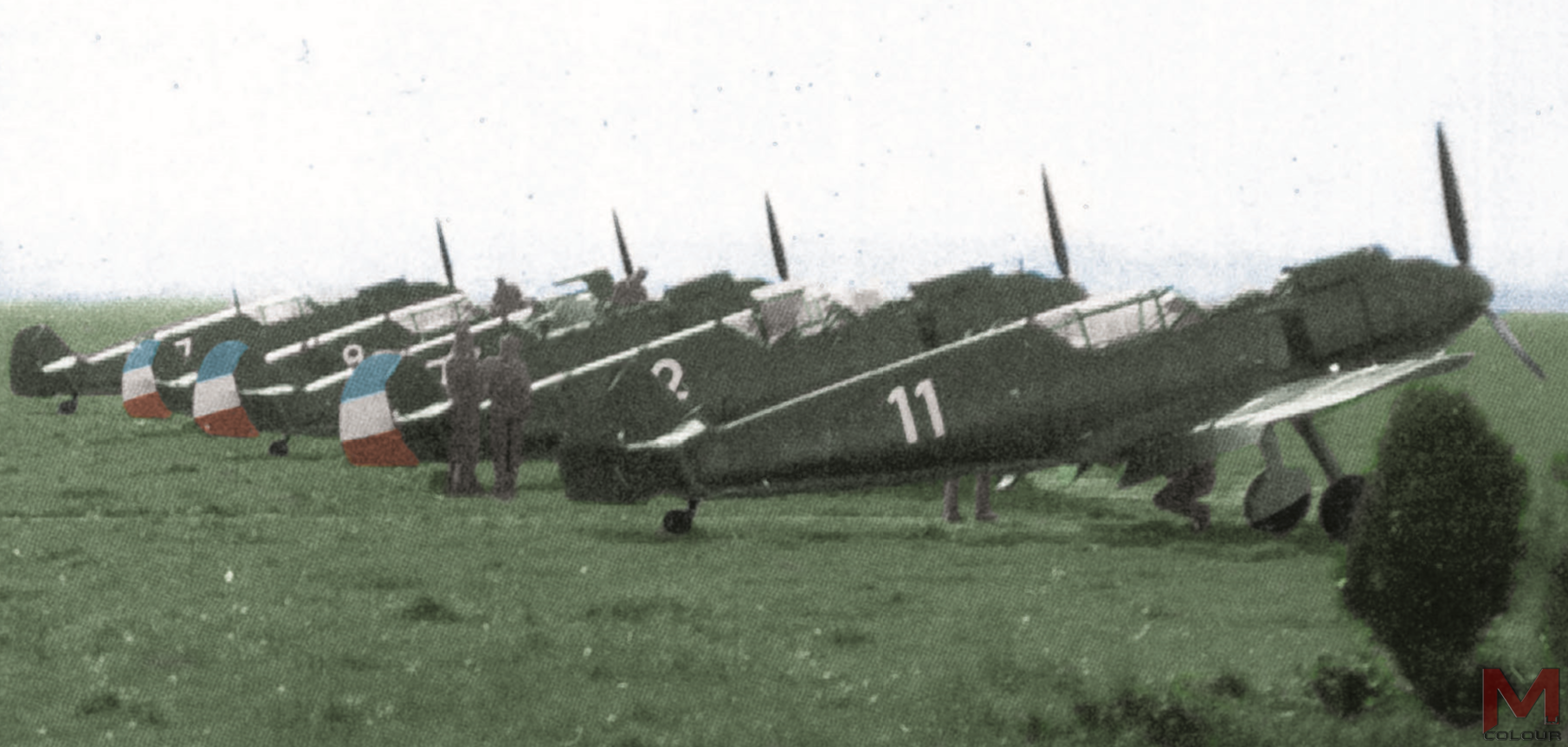 Colorised Yugoslav Bf 109